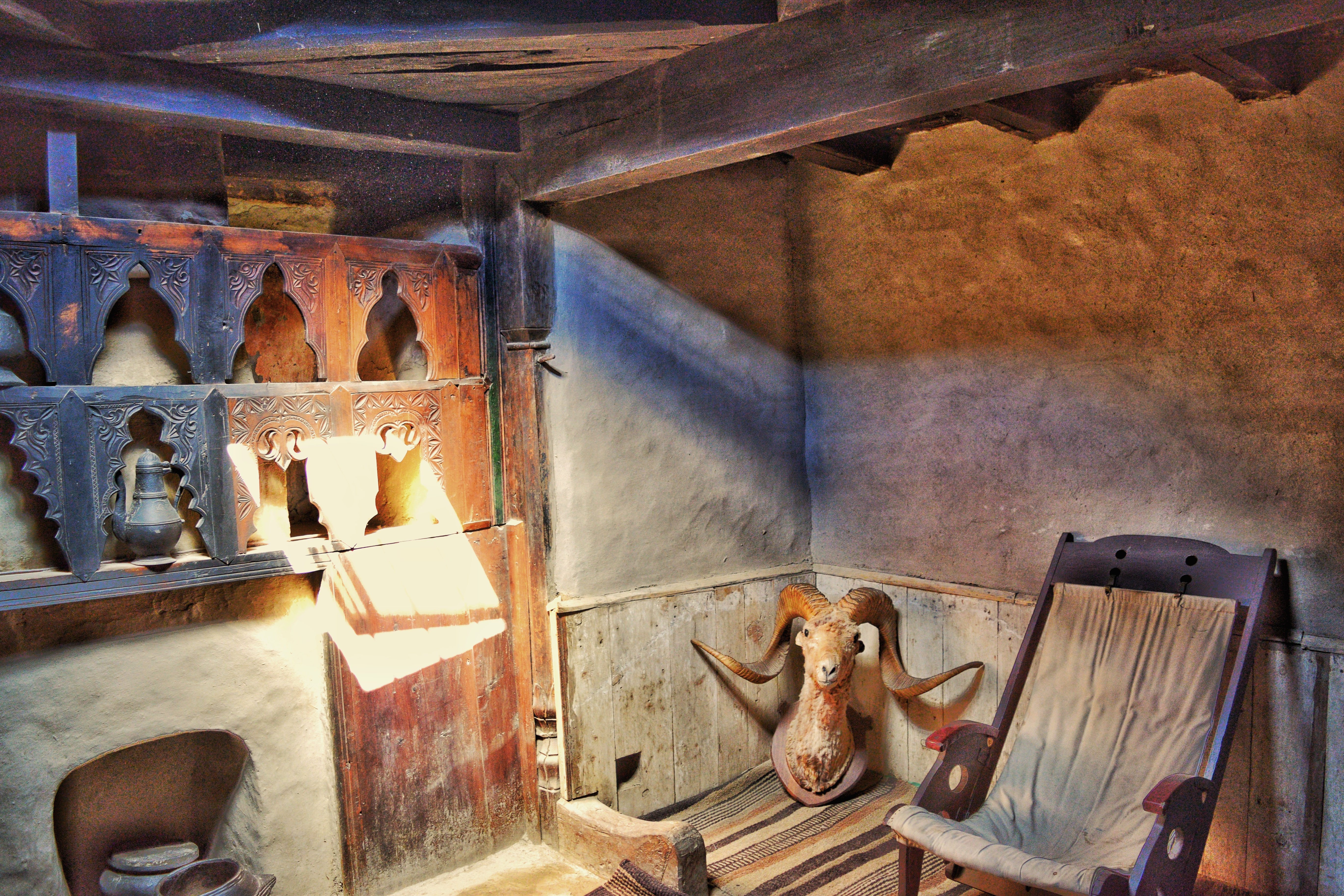 This Image shows the Interior of Baltit Fort. Baltit Fort, located 2800 m to the summits of the Himalayas, was built at the time, enemies and withstands frequent earthquakes. Until 1950, the fort was the residence of the Mirs of Hunza, but was then left to perish. The recent restoration, proposed by the Aga Khan Trust has carefully respecting the original construction techniques